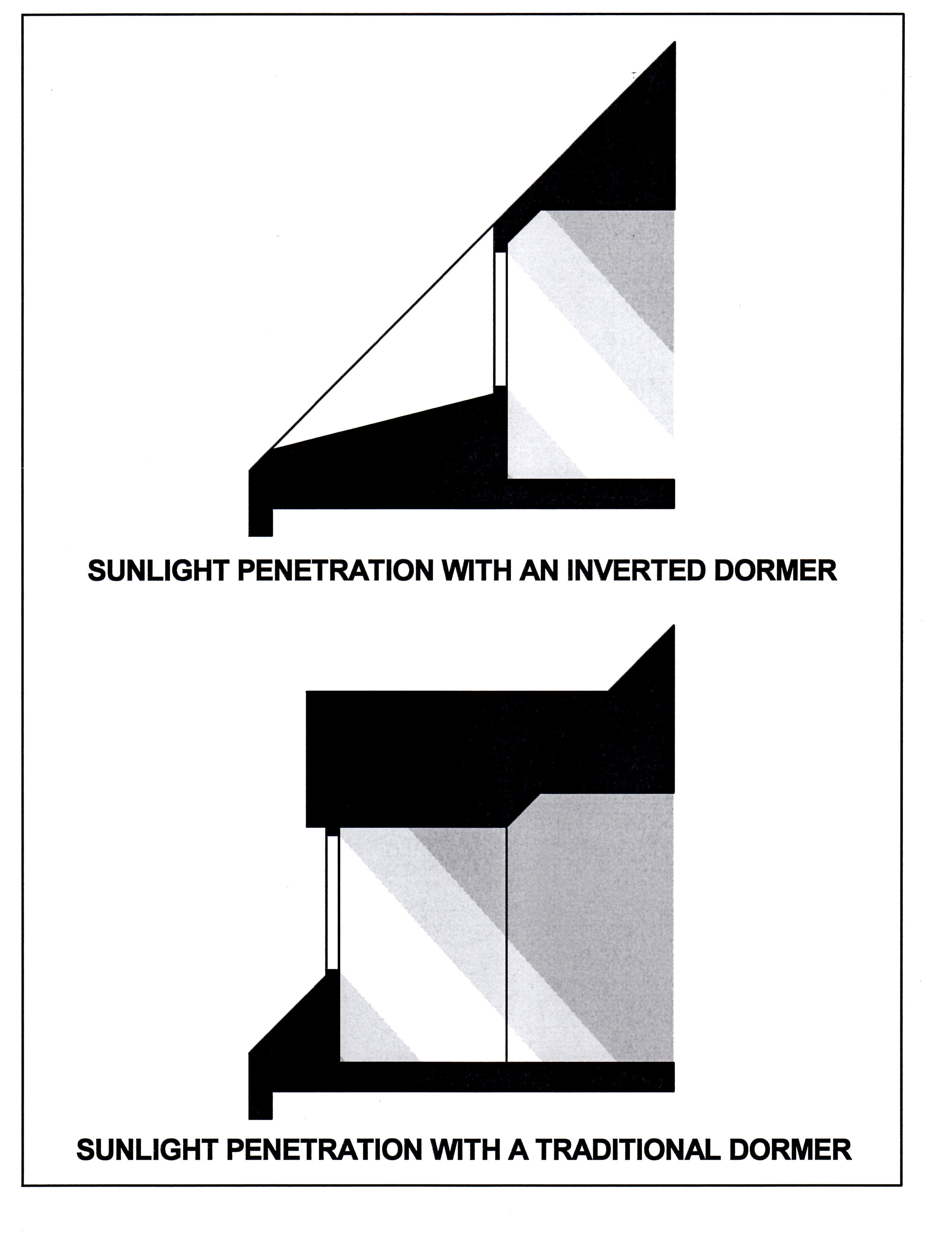 Diagram showing the difference between the amount of sunlight admitted by a conventional dormer and an inverted dormer